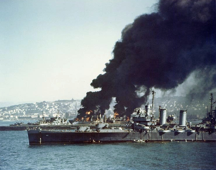 Two "Liberty" ships are afire in Algiers harbour, Algeria, following a German air attack, 16 July 1943. The U.S. Navy light cruiser USS Savannah (CL-42) is in the foreground.